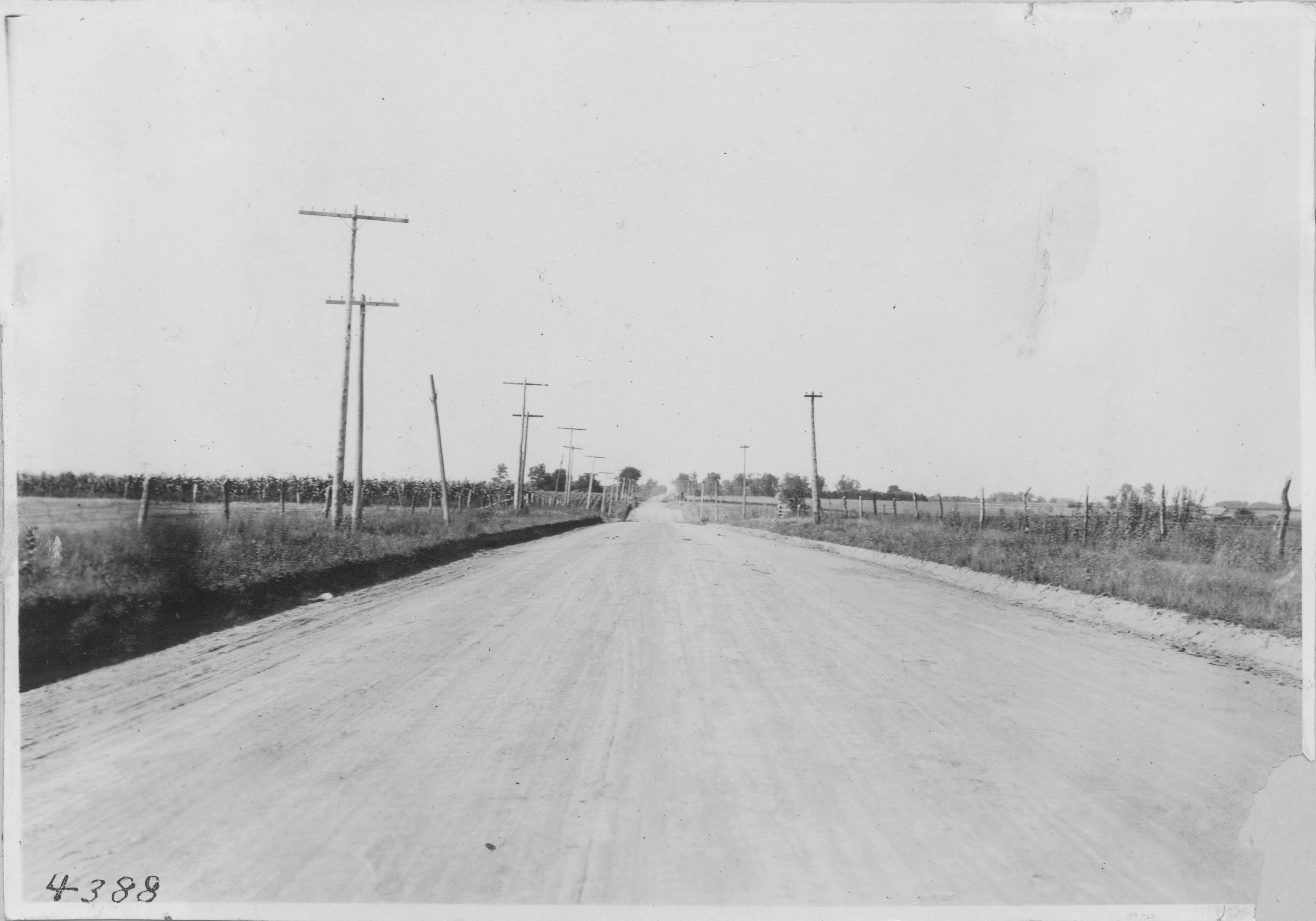 A graded gravel section of the Jefferson Highway in Decatur County near Leon, Iowa